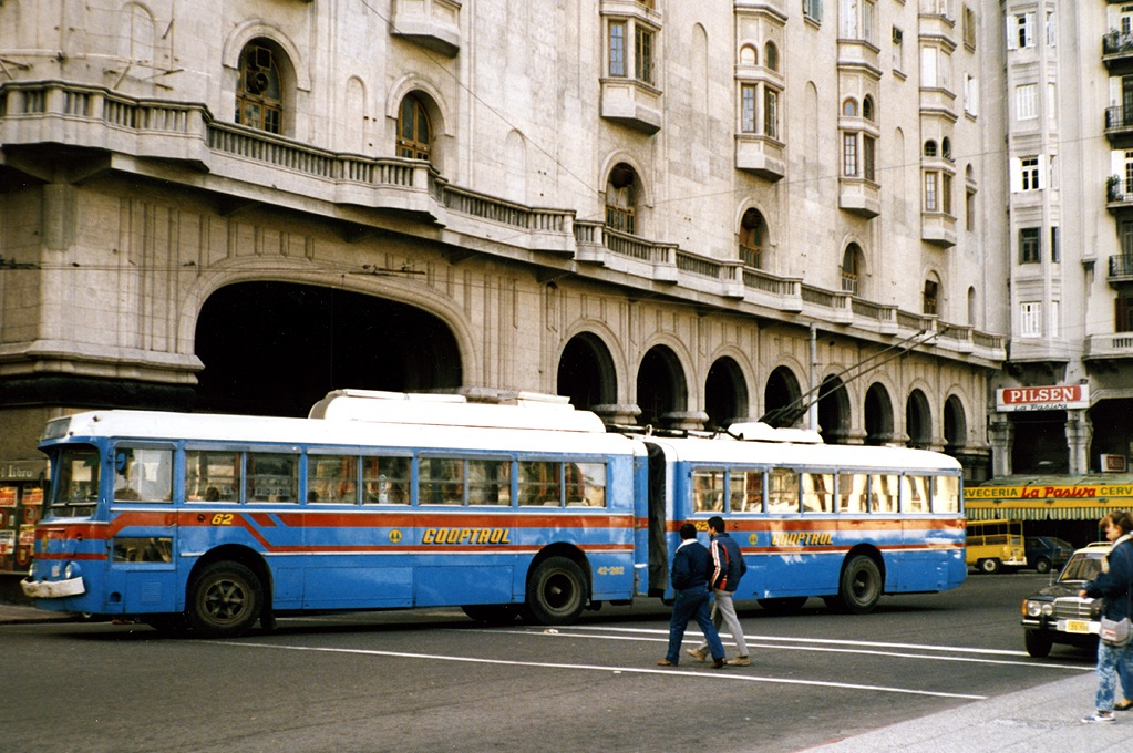 An articulated trolleybus in Montevideo, Uruguay, in 1986. Trolleybus No. 62 is turning onto Avenida 18 de Julio from Plaza Independencia, in the city centre.